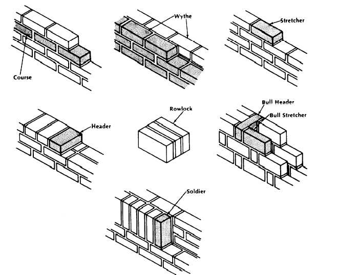 Illustration of various ways bricks are used.